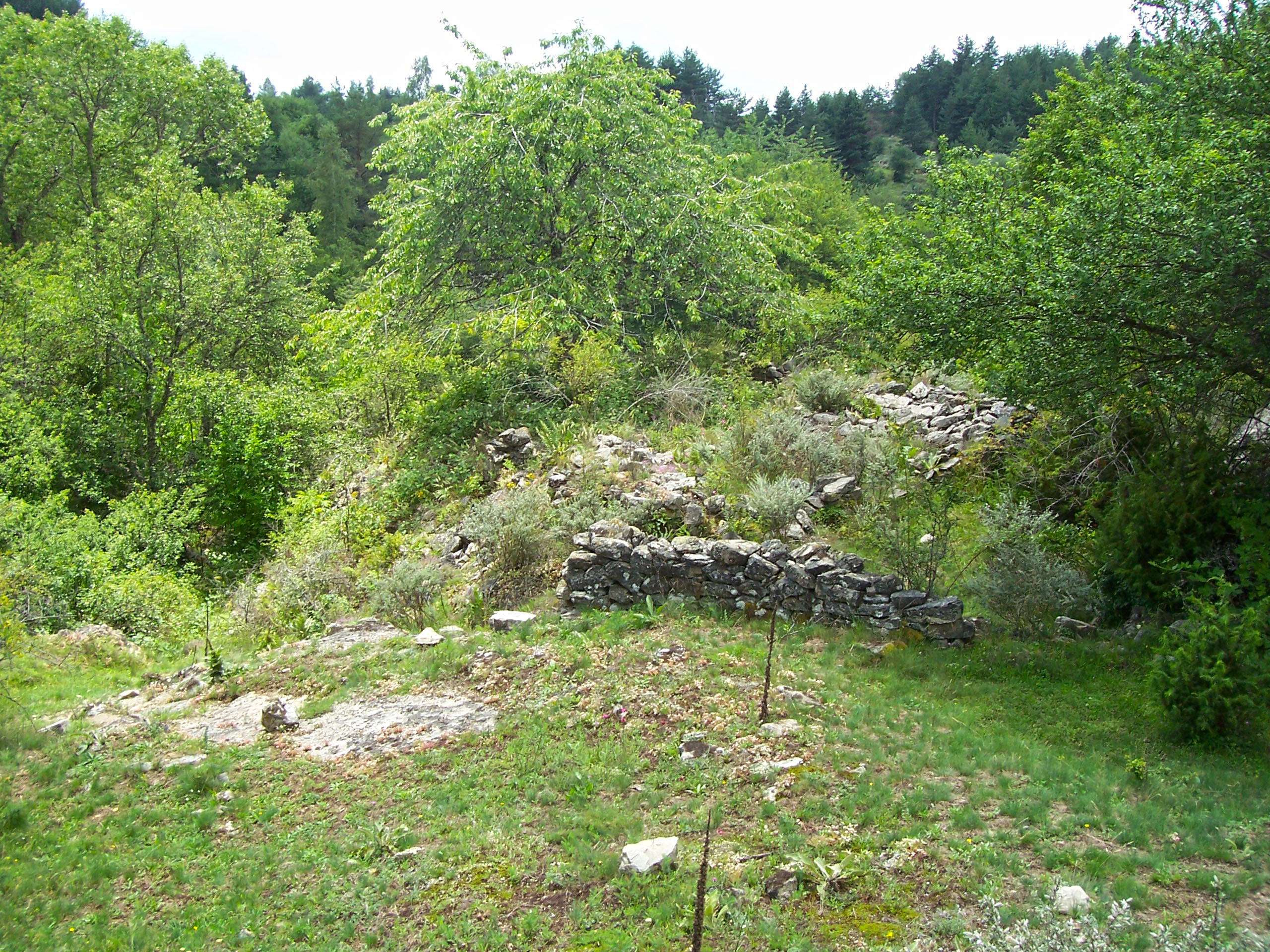 Ruins of a house in the village of Tisovo.